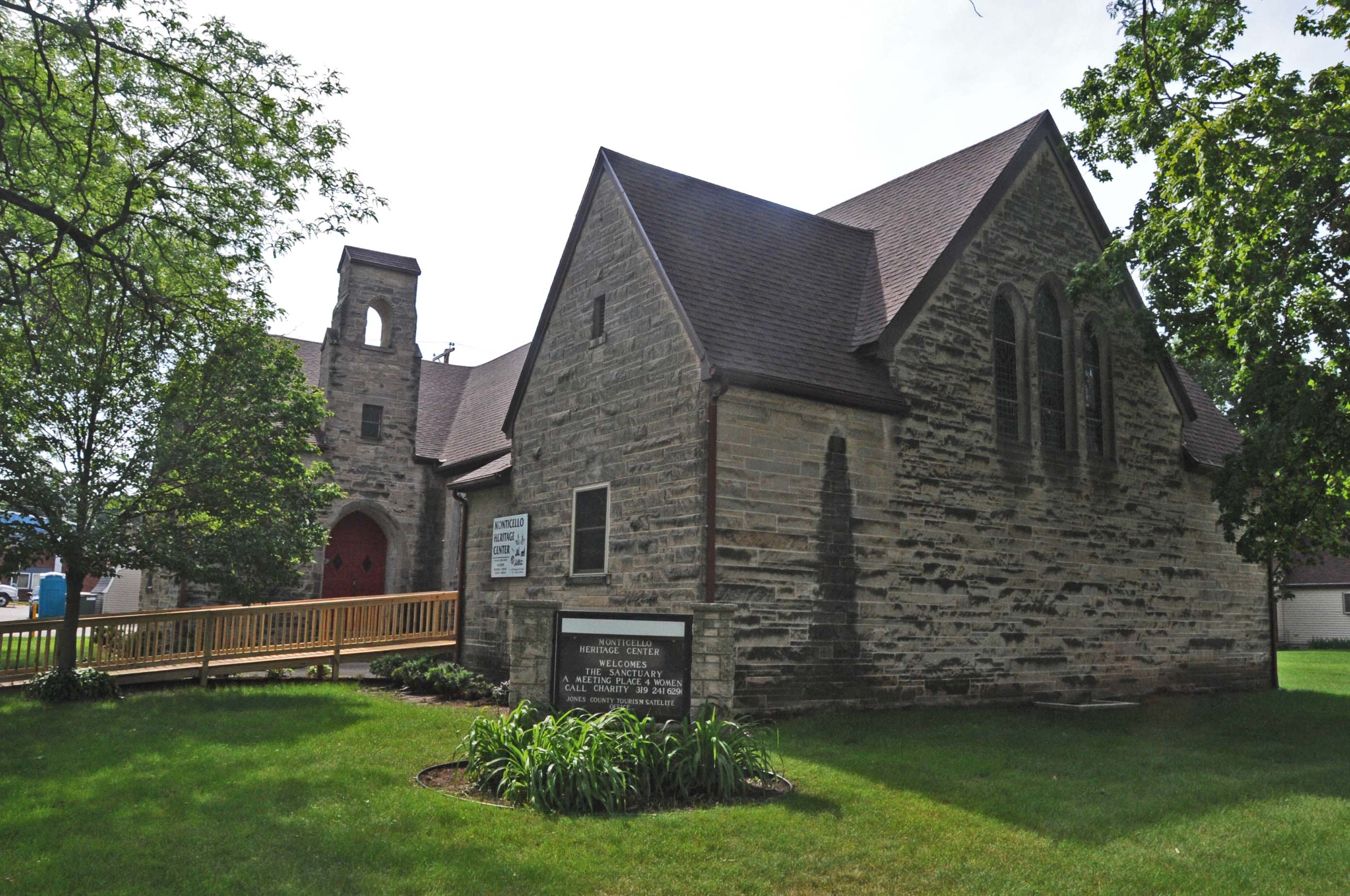 1950; LATE GOTHIC REVIVAL; THE CHURCH IS CLOSED AND THE BUILDING IS NOW THE MONTICELLO CULTURAL AND HERITAGE CENTER